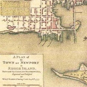 Map by Charles Blaskowitz. A Plan of the Town of Newport in Rhode Island. London: Faden, 1777. Hand-colored engraving. [1]